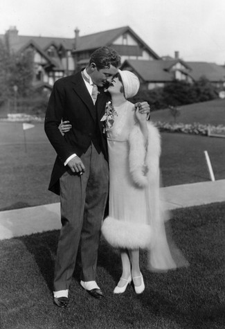 Blonde ambition: Prince David Mdivani and Mae Murray, 1926.